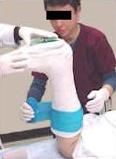 Casting/Gipsverband